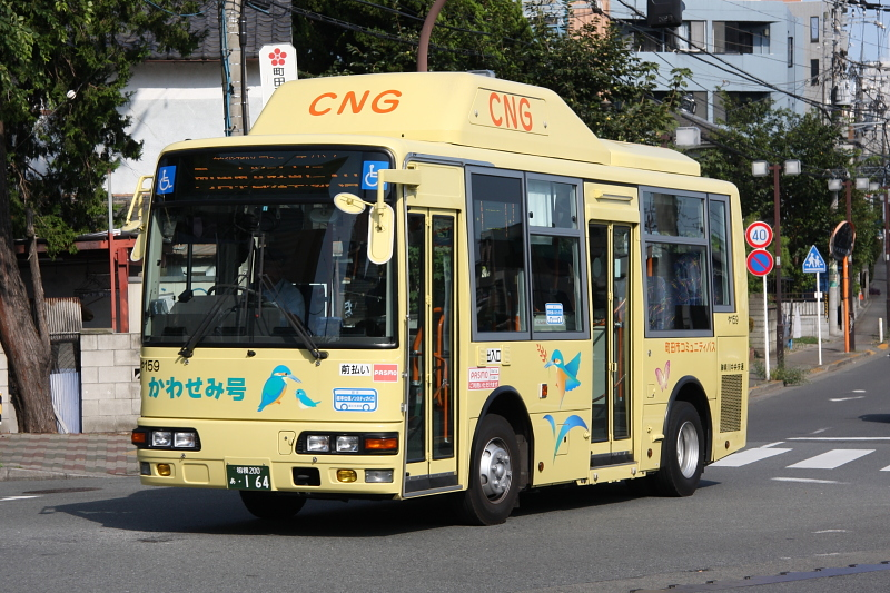 Machida City Community Bus "Kasasemi-go" 町田市コミュニティバス「かわせみ号」